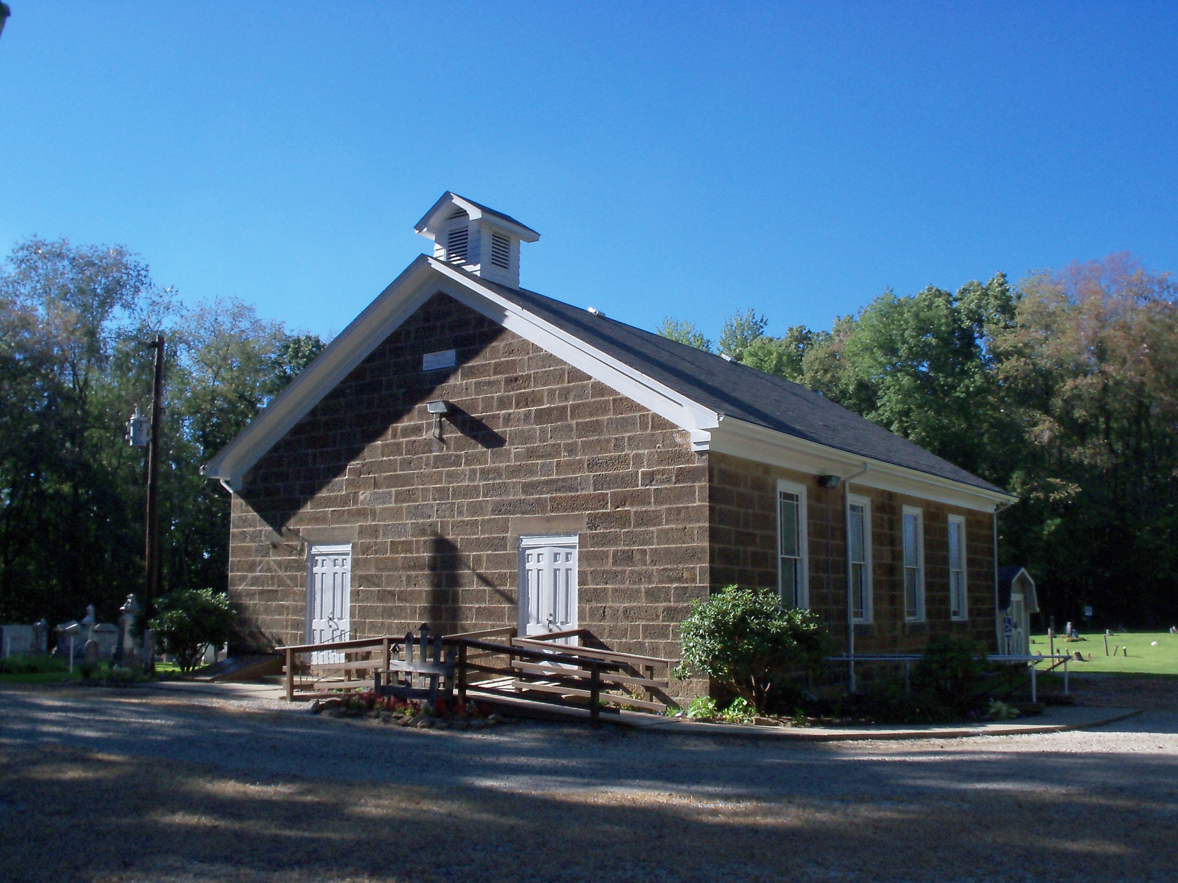 Herrington Bethel Church, a building on the National Register of Historic Places In Carroll County, Ohio.